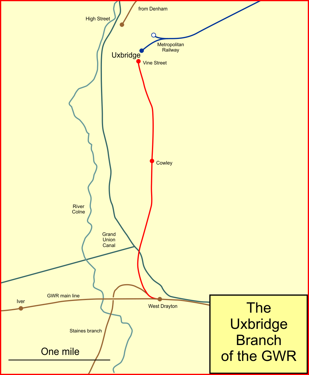 System map of the Uxbridge Vine Street branch of the Great Western Railway, England